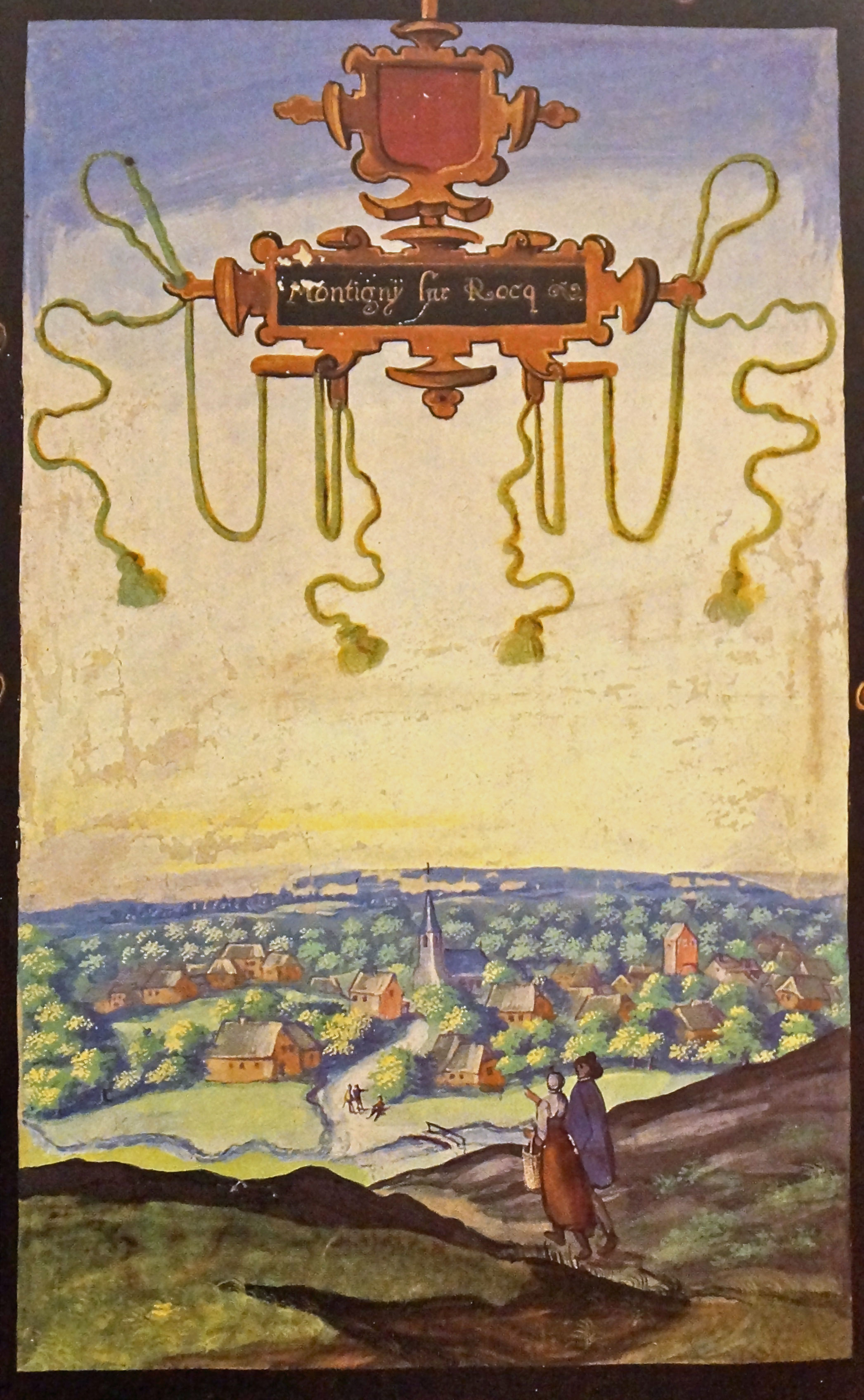 Honnelles (Montignies-sur-Roc), en:: Montignies-sur-Roc about MDC in the albums of Charles III de Croÿ